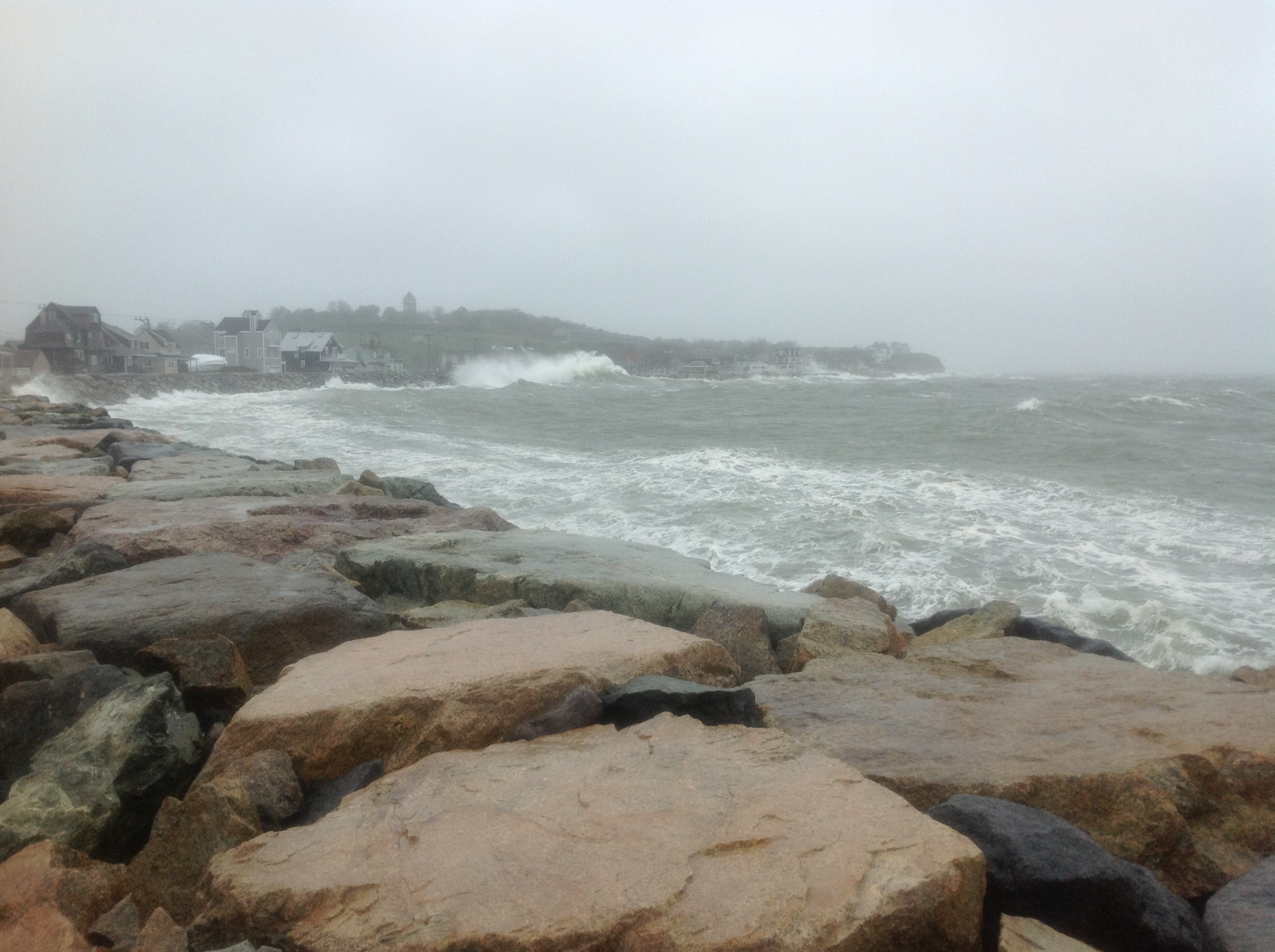 Outside a house in Hull, MA during hurricane Sandy on Monday, Oct 29, 2012